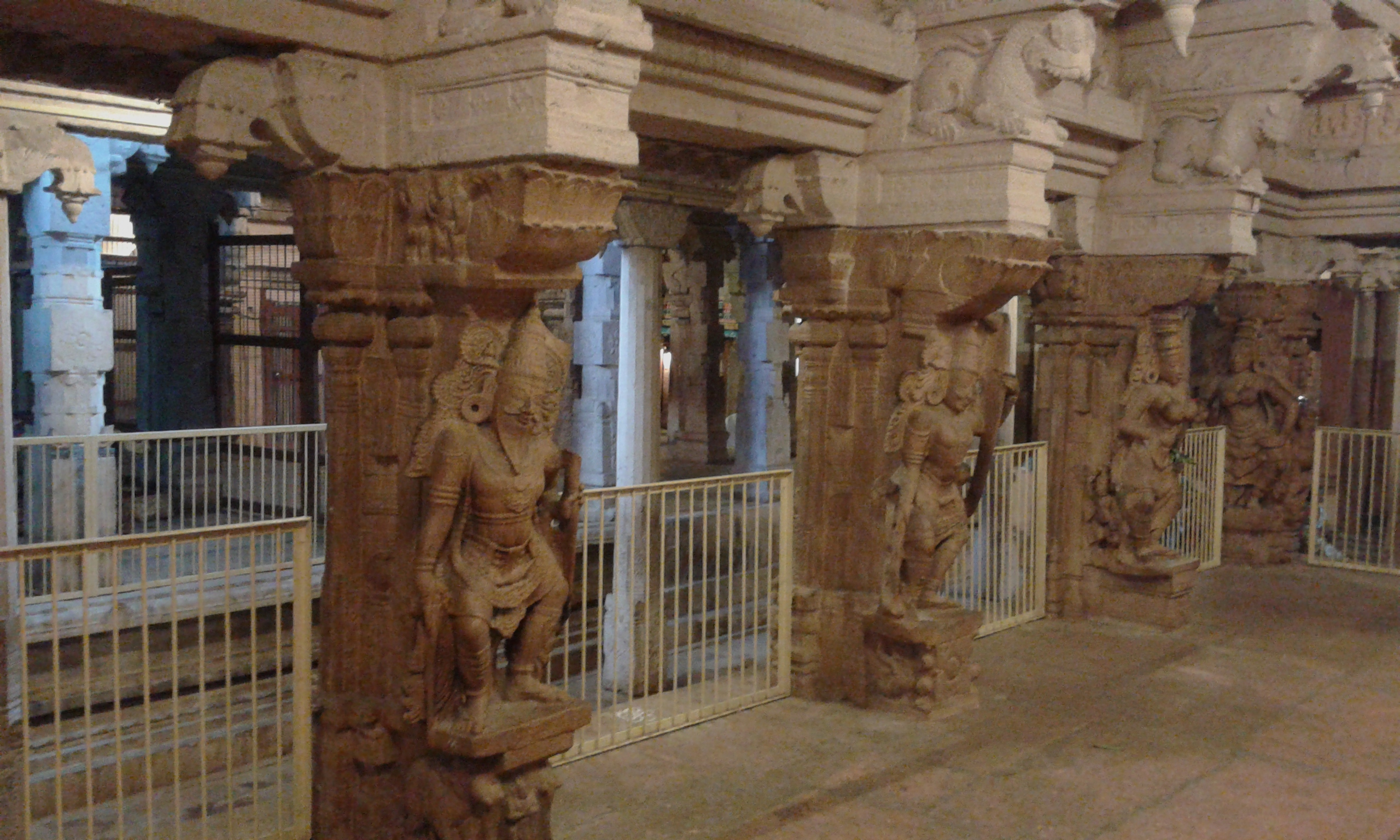 Azhwar Thirunagari